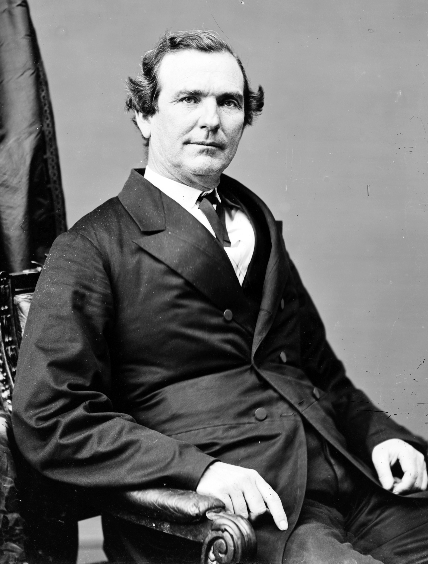 Archibald T. MacIntyre, US Representative from Georgia